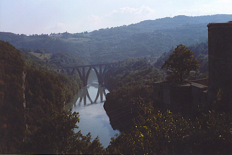 L'Ecluse pass, Rhone river, between Ain and Haute Savoie, France